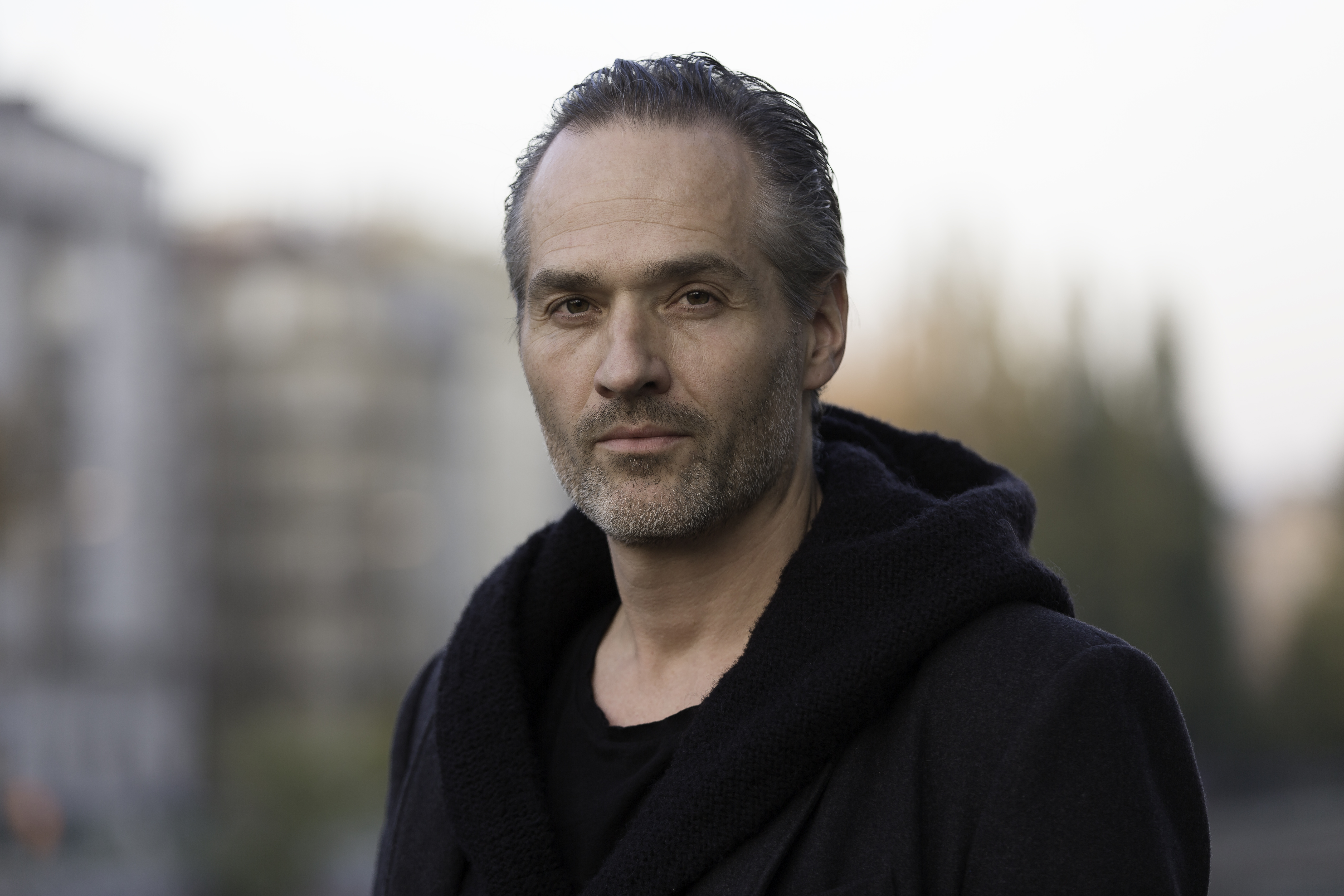 Akiz with his film Der Nachtmahr at Vienna International Film Festival 2015 (Urania in Vienna, Austria.